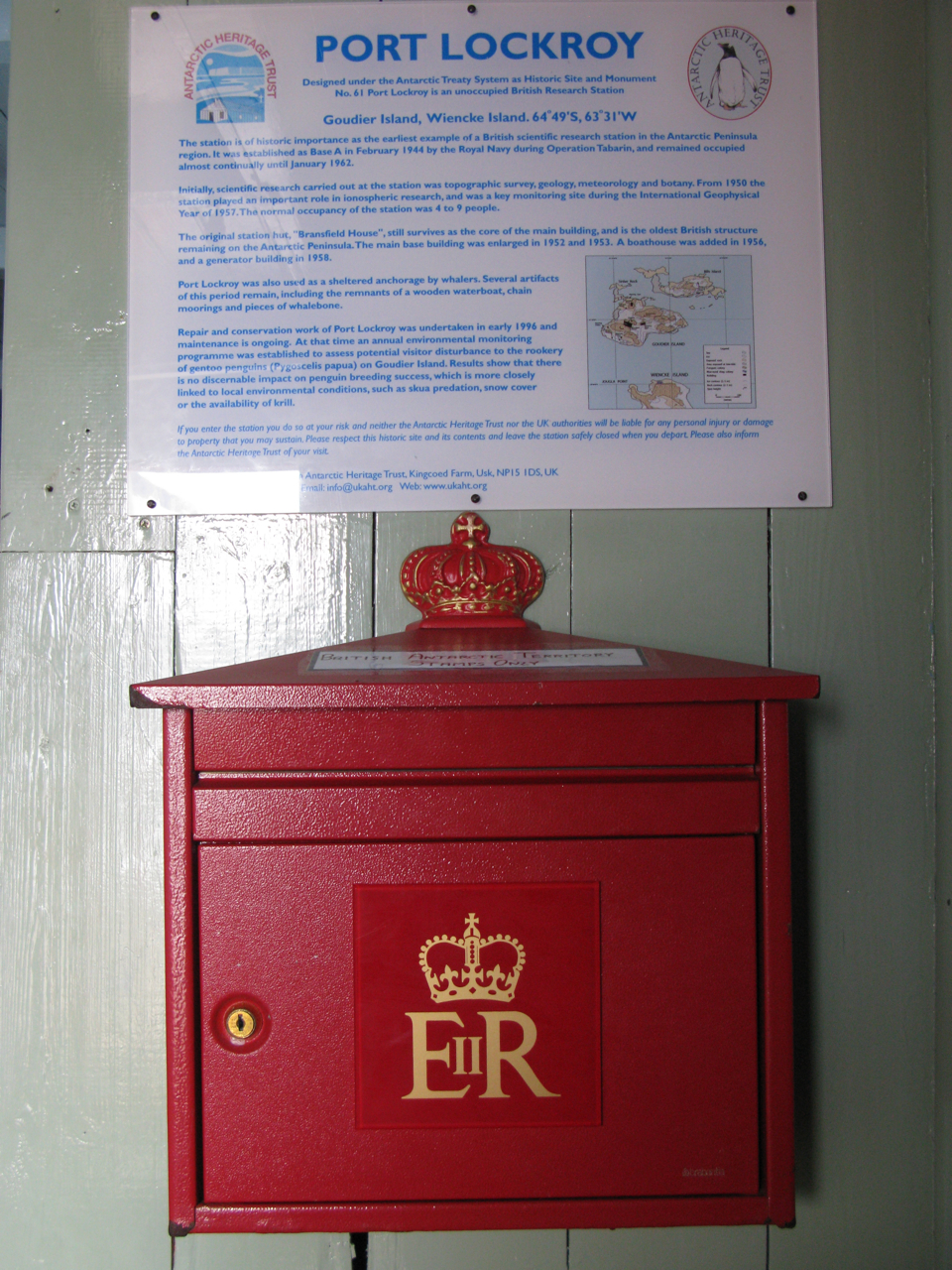 Port Lockroy Station - Post Office - Antarctic